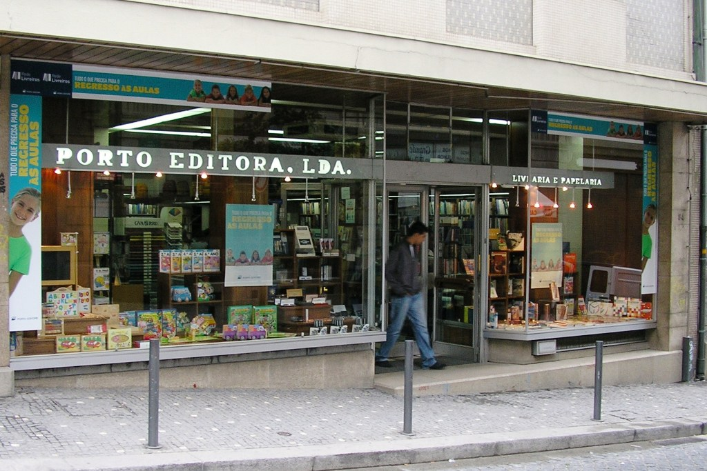 "Porto Editora" bookshop in Porto, Portugal